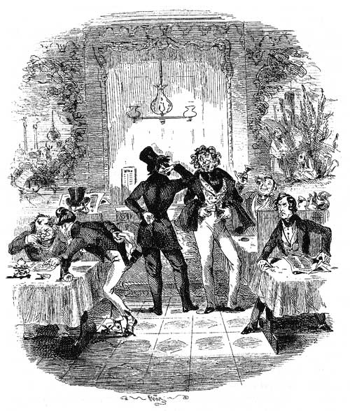 Illustration for Nicholas Nickleby by Hablot Browne